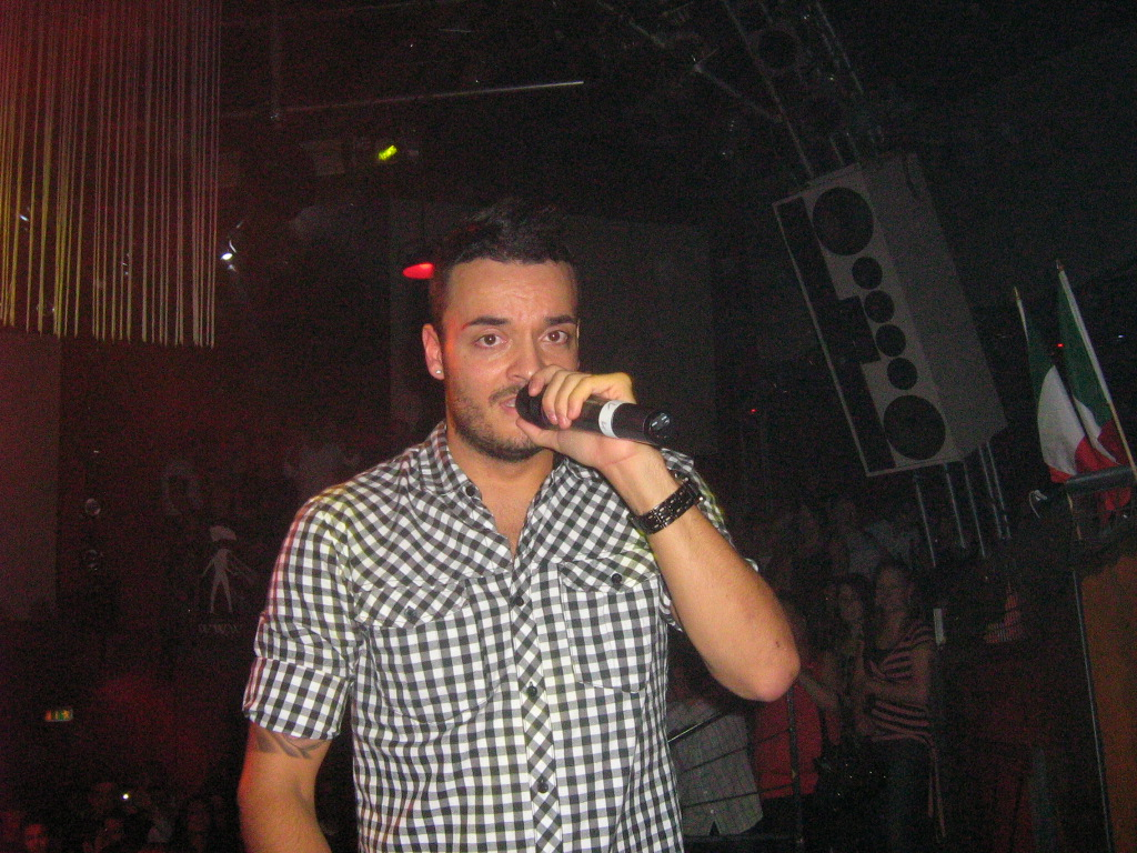 Giovanni Zarrella live (2009)